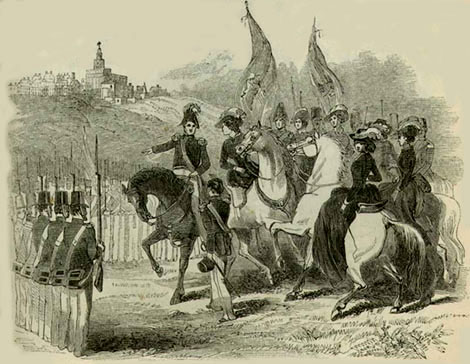 Depiction of Joseph Smith at head of the Nauvoo Legion. Notice Nauvoo Temple in the background.